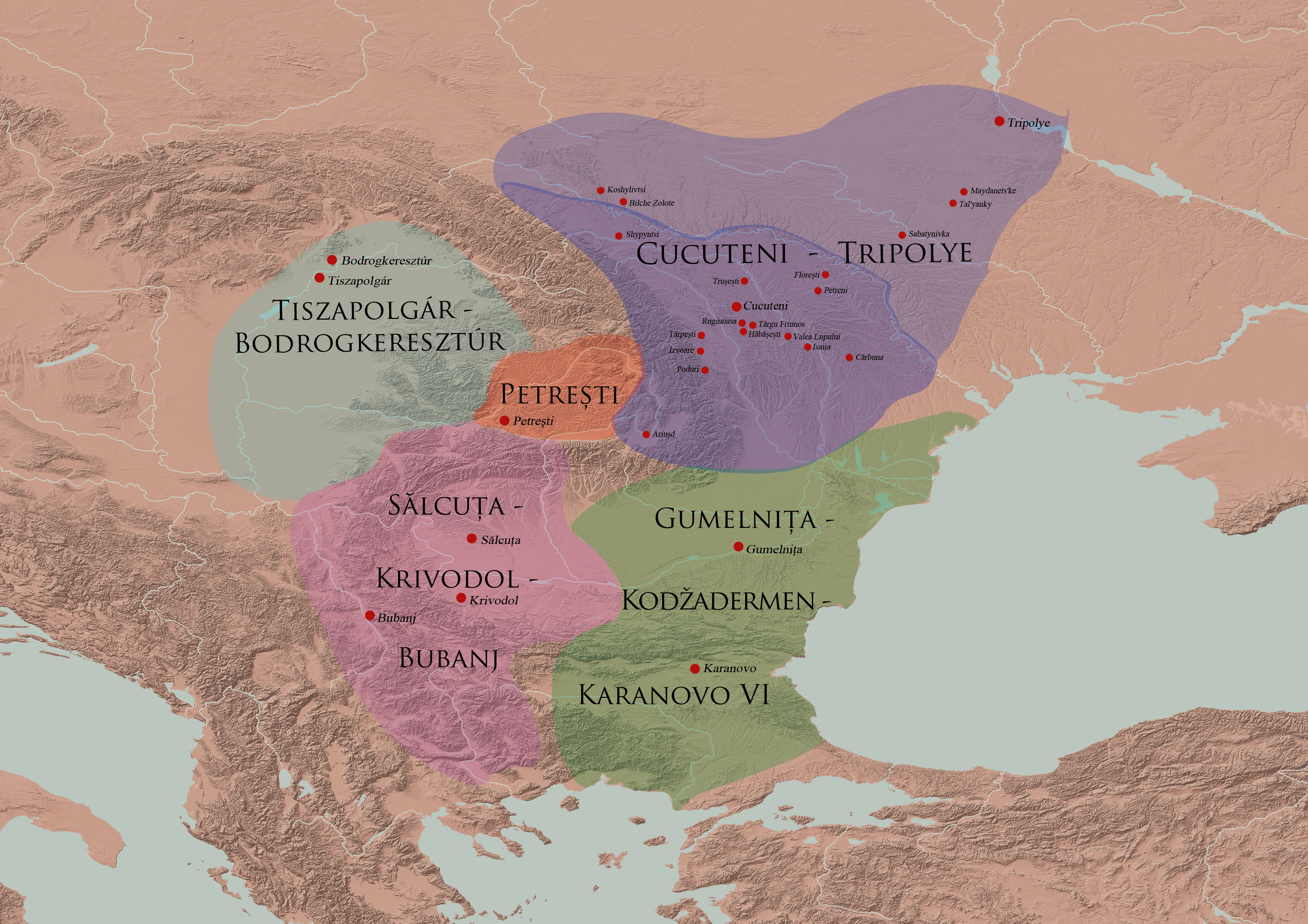 Eneolithic cultures of Southeastern Europe, with major archaeological sites (including typesites)